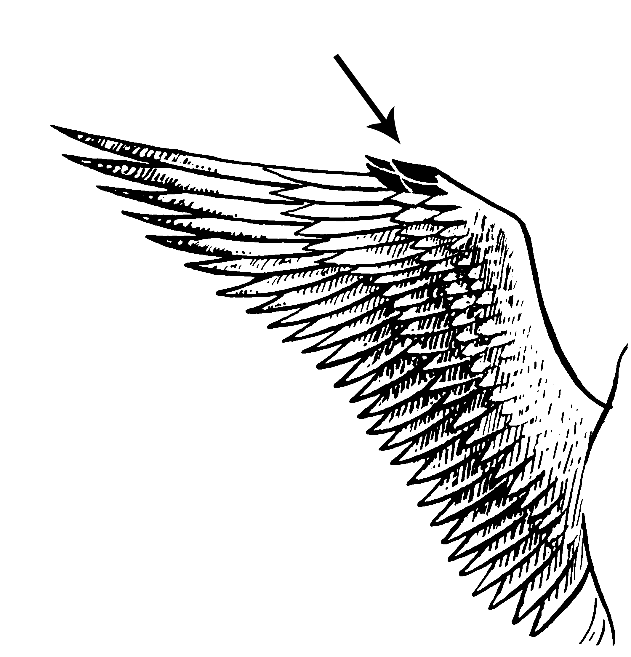 Line art drawing of the alula feather